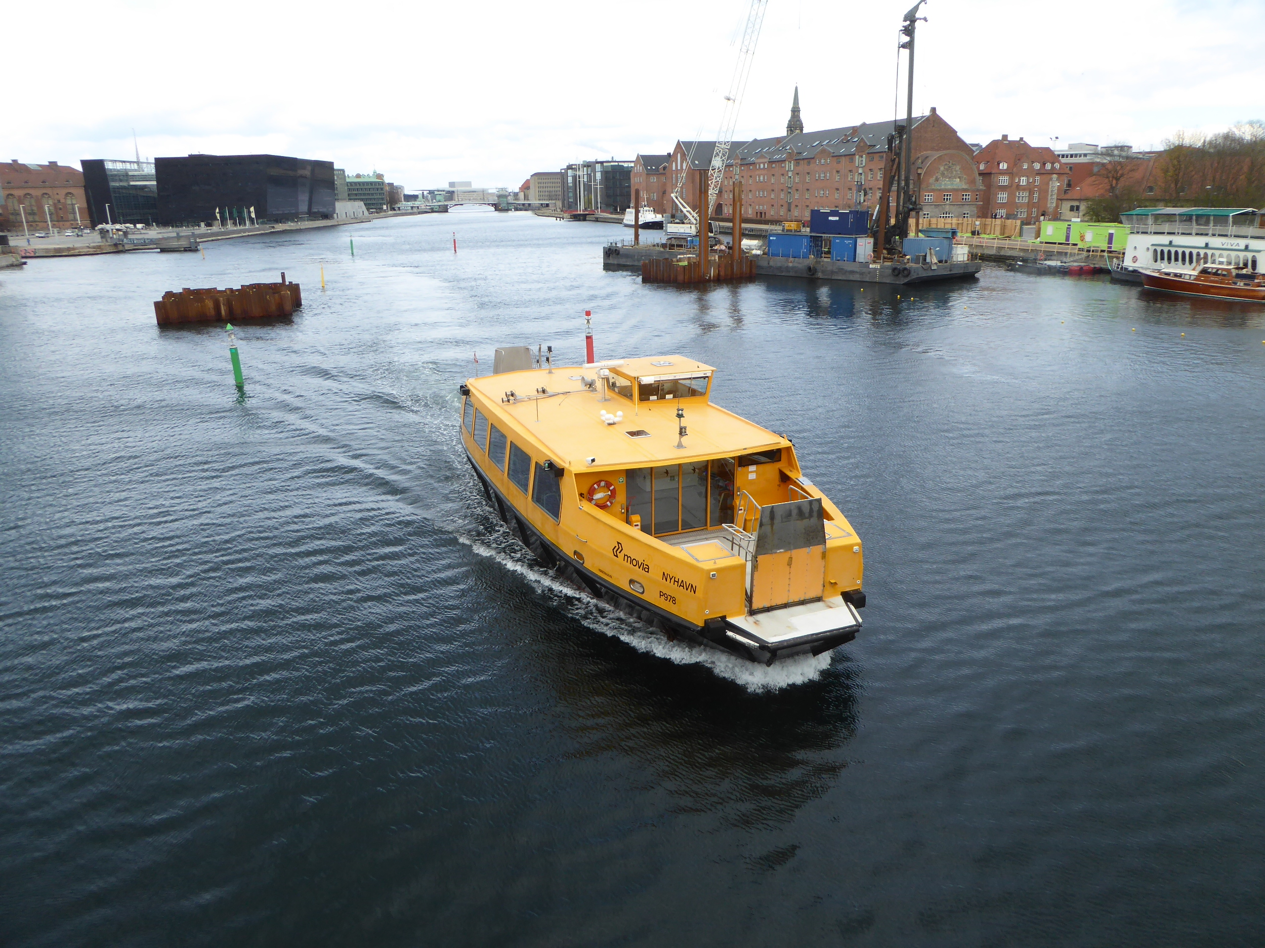 The harbor bus Nyhavn seen from Langebro in Inderhavnen in Copenhagen